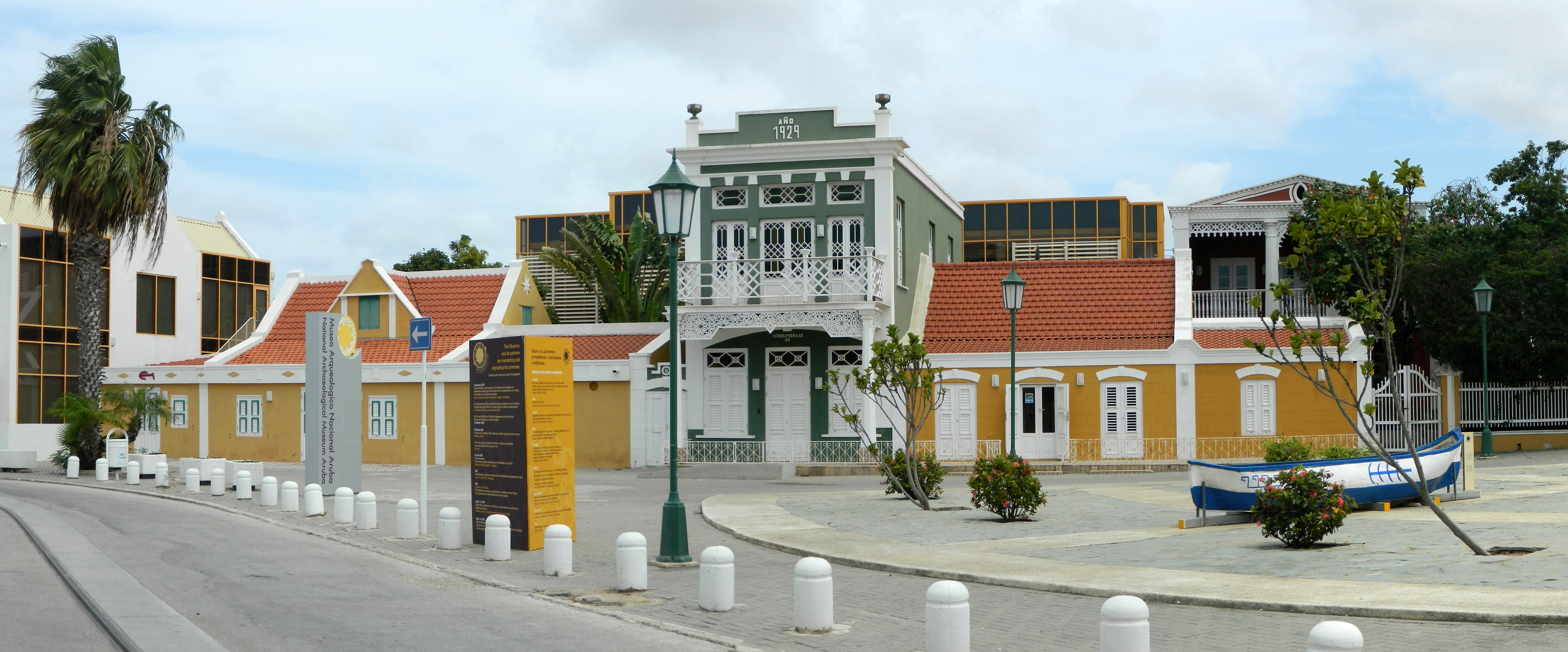 Archaeological Museum Panorama (1), Oranjestad, ARUBA